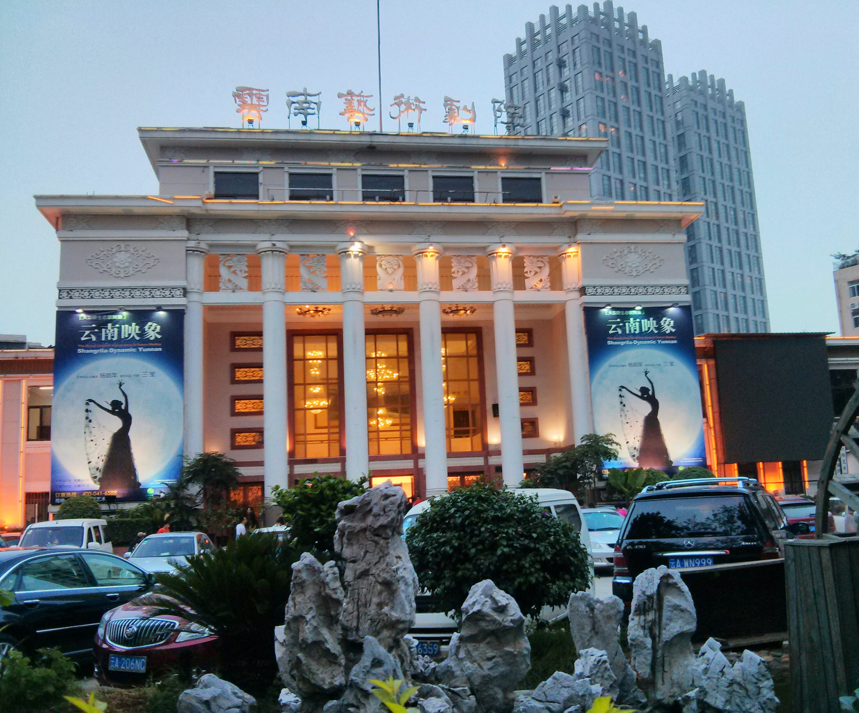 Front of the Yunnan Art Theater while attempting at Dynamic Yunnan show, in Kunming in August 2013.